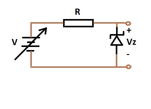 Regulador de tensión utilizando diodo Zener